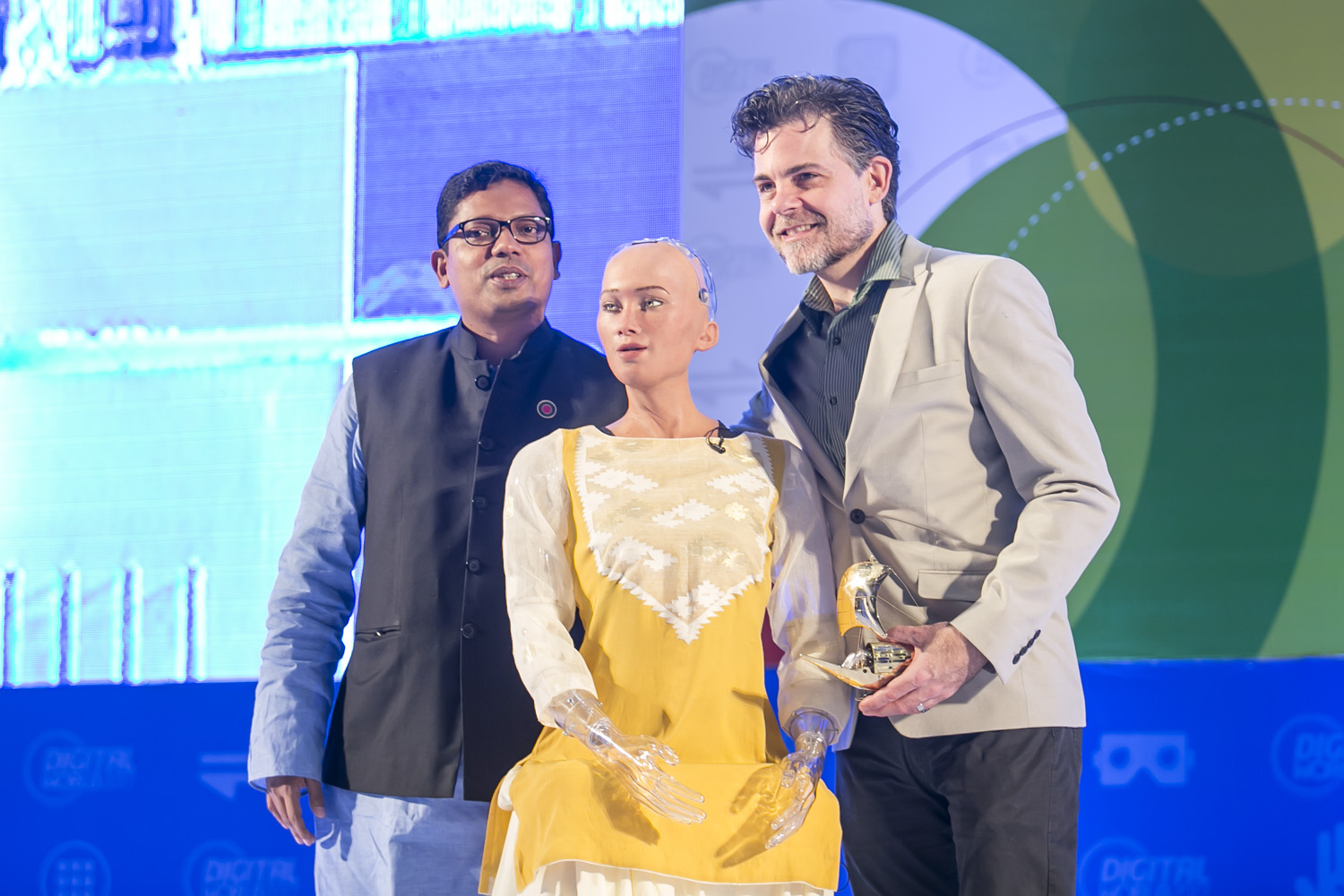 Sophia with her creator David Hanson and state minister of ICT (Bangladesh) Zunaid Ahmed Palak at Digital World 2017 conference, Dhaka, Bangladesh in December 2017